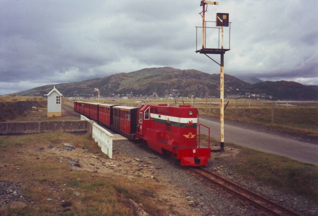 Loop Halt, the Fairbourne Railway, Fairbourne